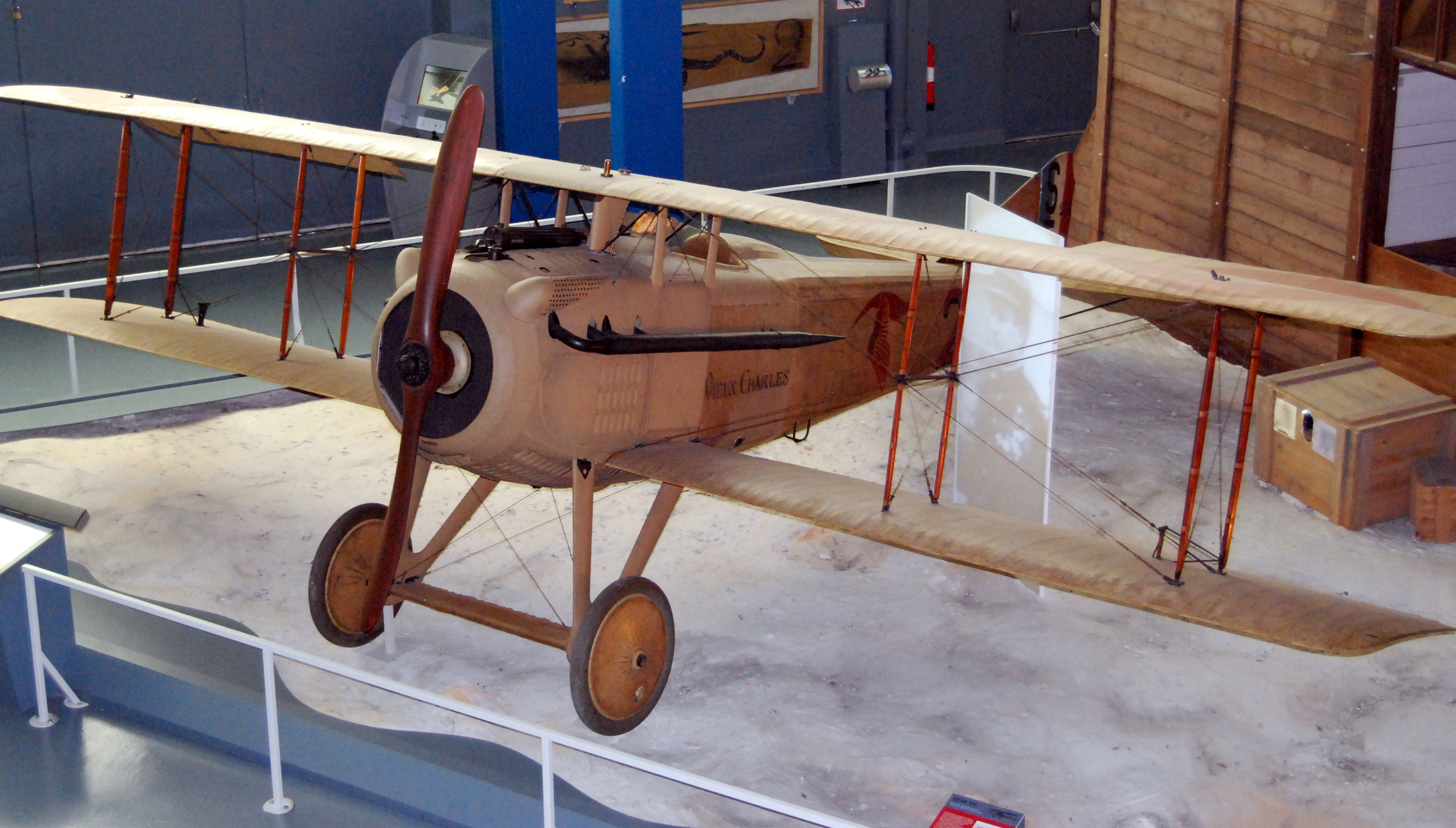 Photo ref; DSC1109-2012